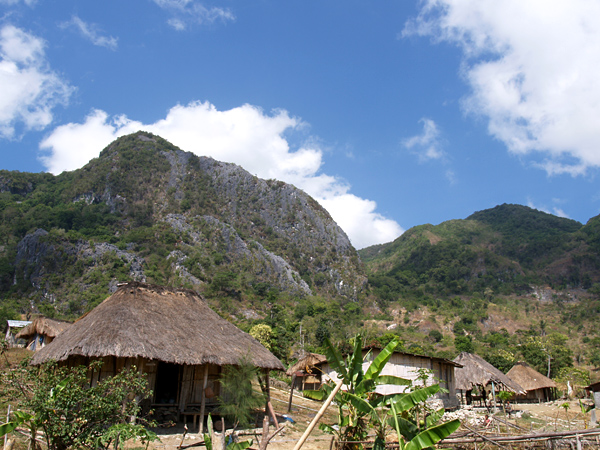 Hamelt near Mundo Perdidu mountains, East Timor